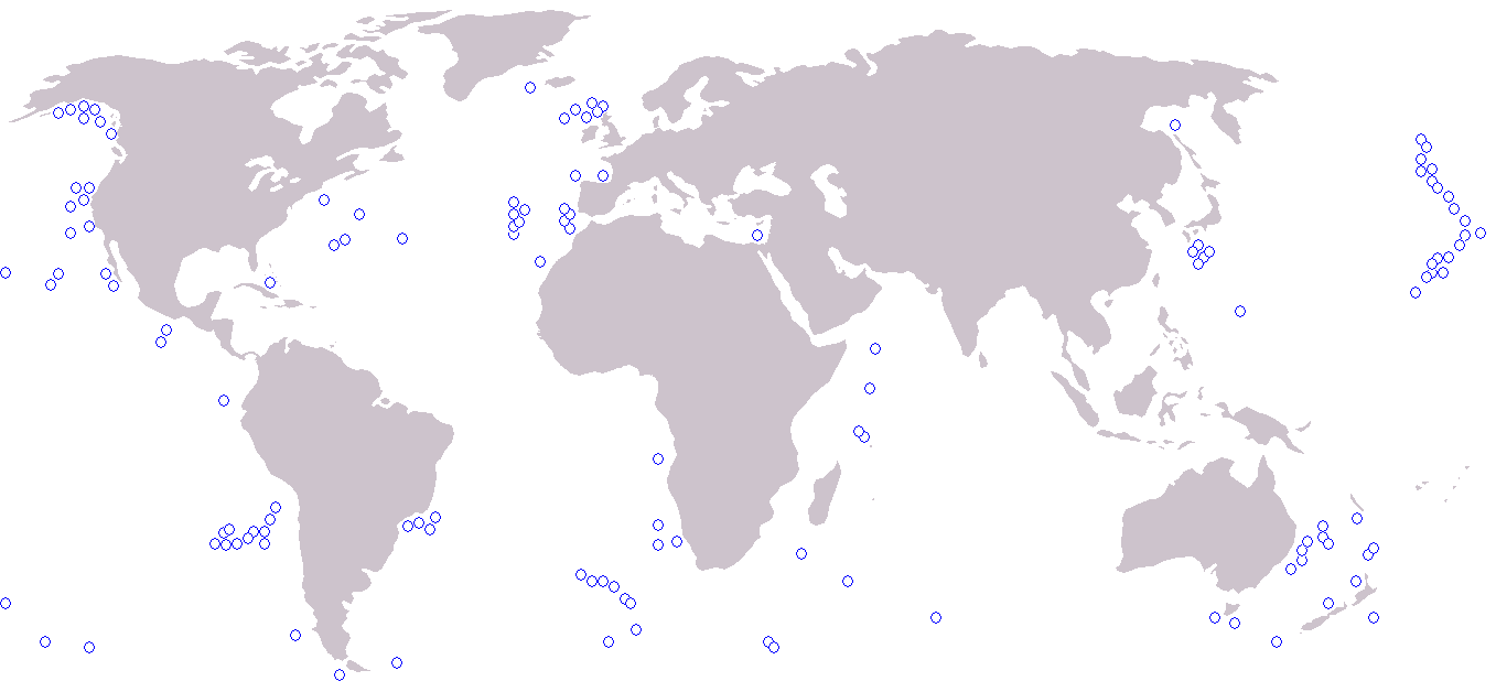 Seamount locations